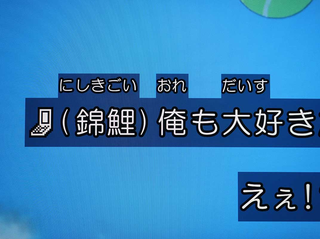 Japanese TV closed caption using gaiji which displays flip style phone. The glyph seems to be out of ARIB STD B24 character set, so it will be carried as bitmap data in broadcast stream.